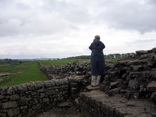 Section of Hadrian's Wall, looking east from Birdoswald.